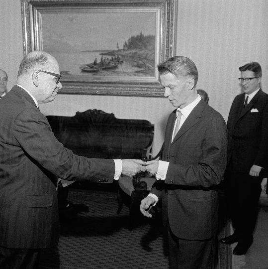 Photograph of the Finnish writer Väinö Kirstinä (1936–2007) receiving the Finnish state literature prize. To the right, the poet Lassi Nummi.